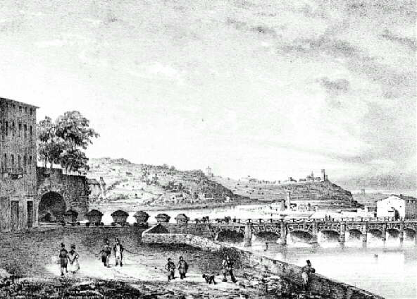 Bridge of Saint-Étienne and Lyon Railway in La Moulatière, with horse-drawn coal train